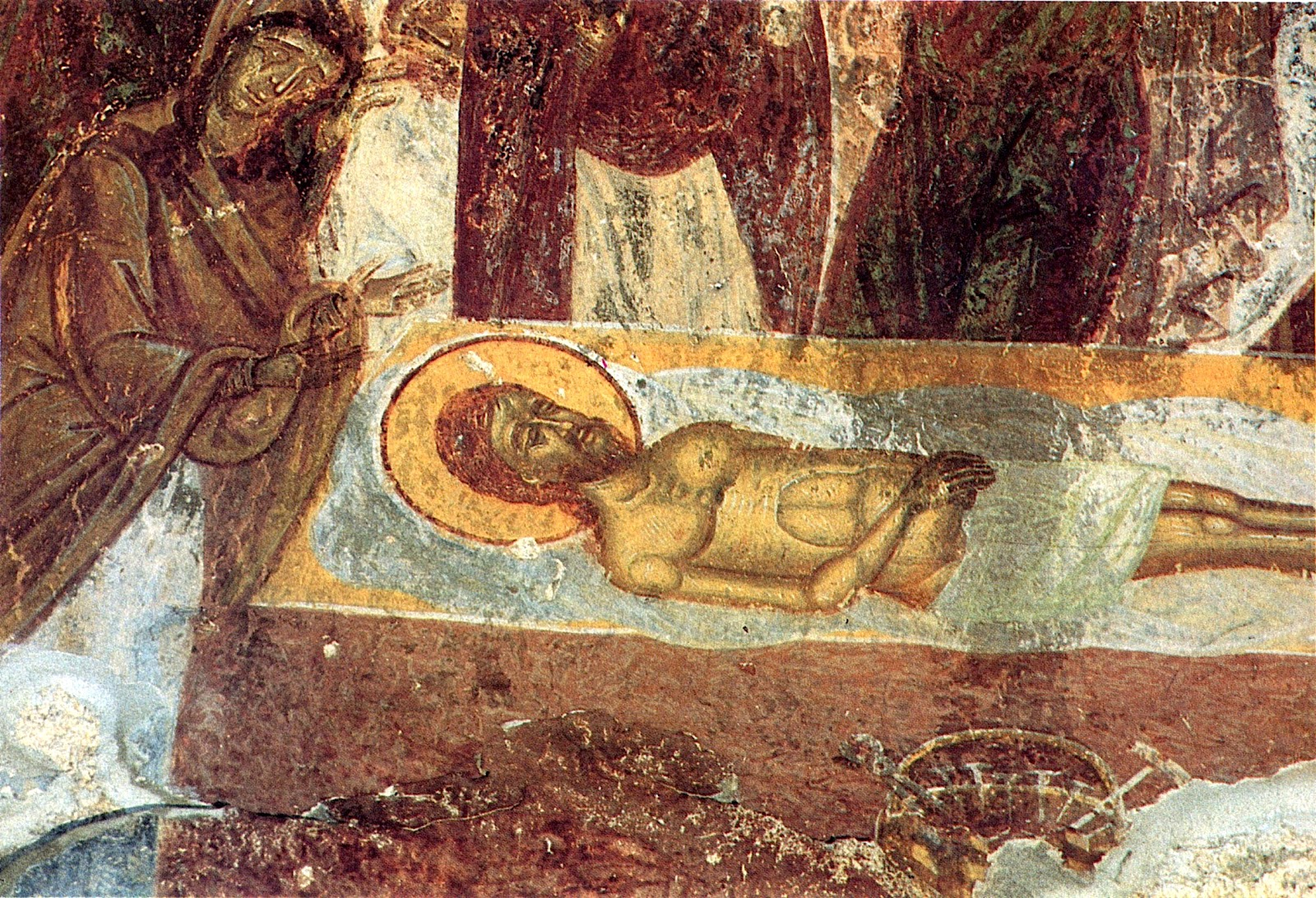 Saint George Church in Asprovalta, Lamentation Fresco, End of 16th Century